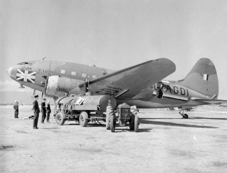 A British Overseas Airways Corporation Curtiss CW-20A ( prototype of the C-46), G-AGDI "St. Louis", is refuelled at Gibraltar. "St. Louis" ran regular supply flights between the UK, Gibraltar and the besieged island of Malta from 1941 to 1942.